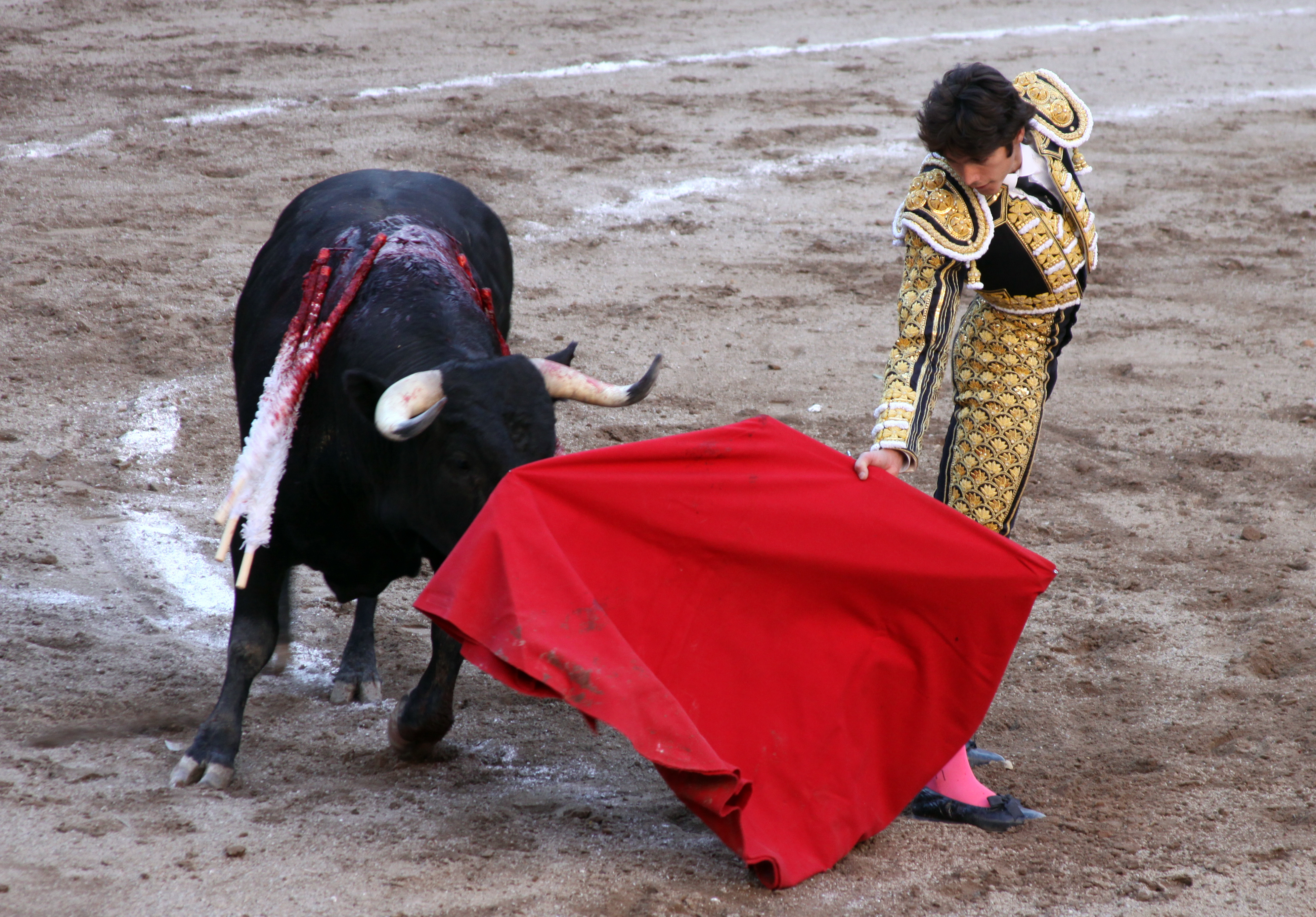 Bullfight in Aguascalientes, Mexico 2010. Bullfighter: Sebastián Castella.